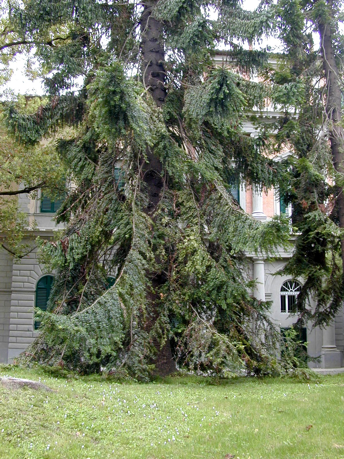 Araucaria bidwillii (female), taken in Pisa botanical garden.